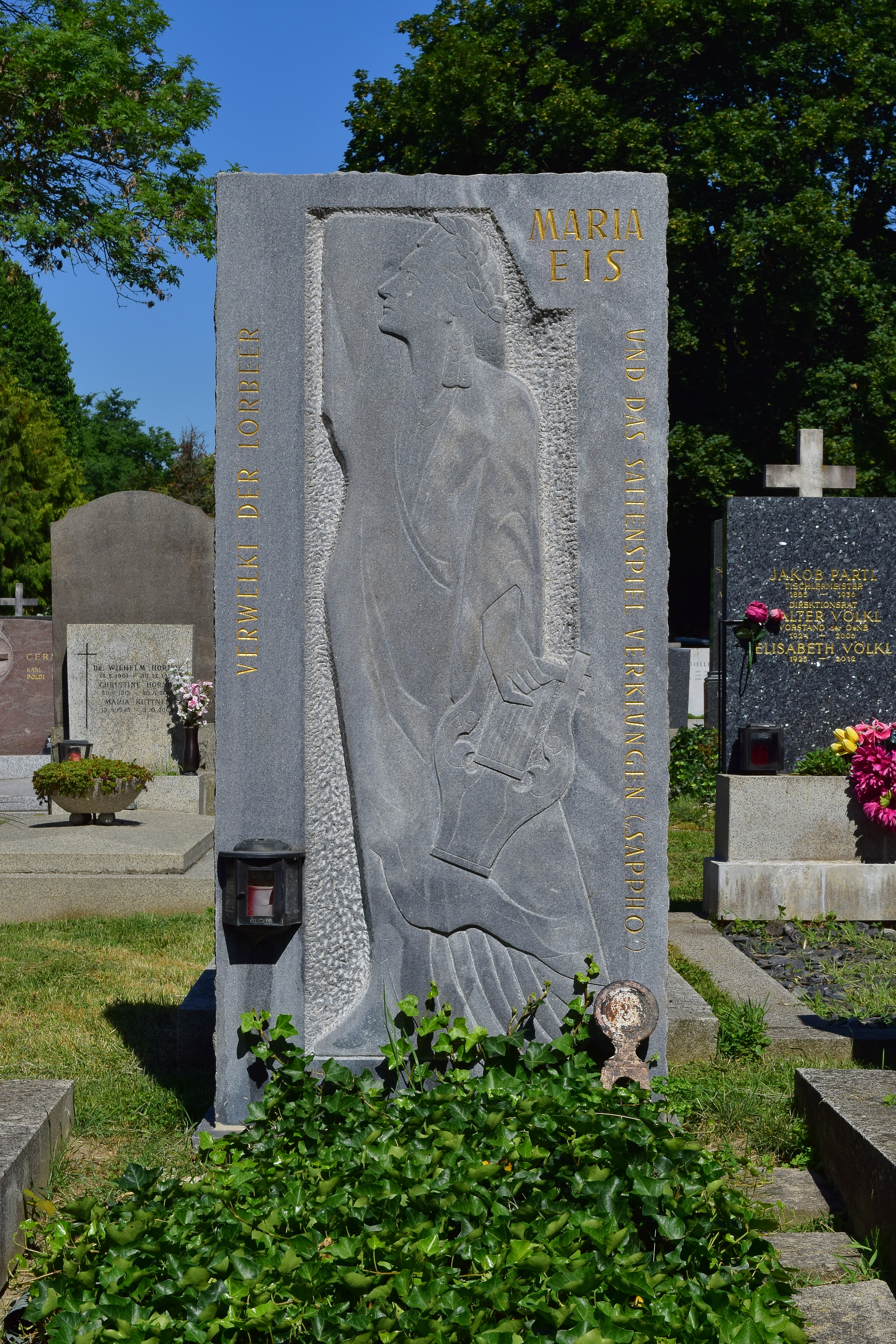 Grave of honor of Maria Eis at the Wiener Zentralfriedhof